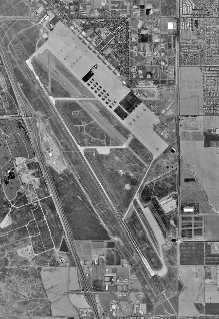 USGS orthophoto of March Air Force Base, California